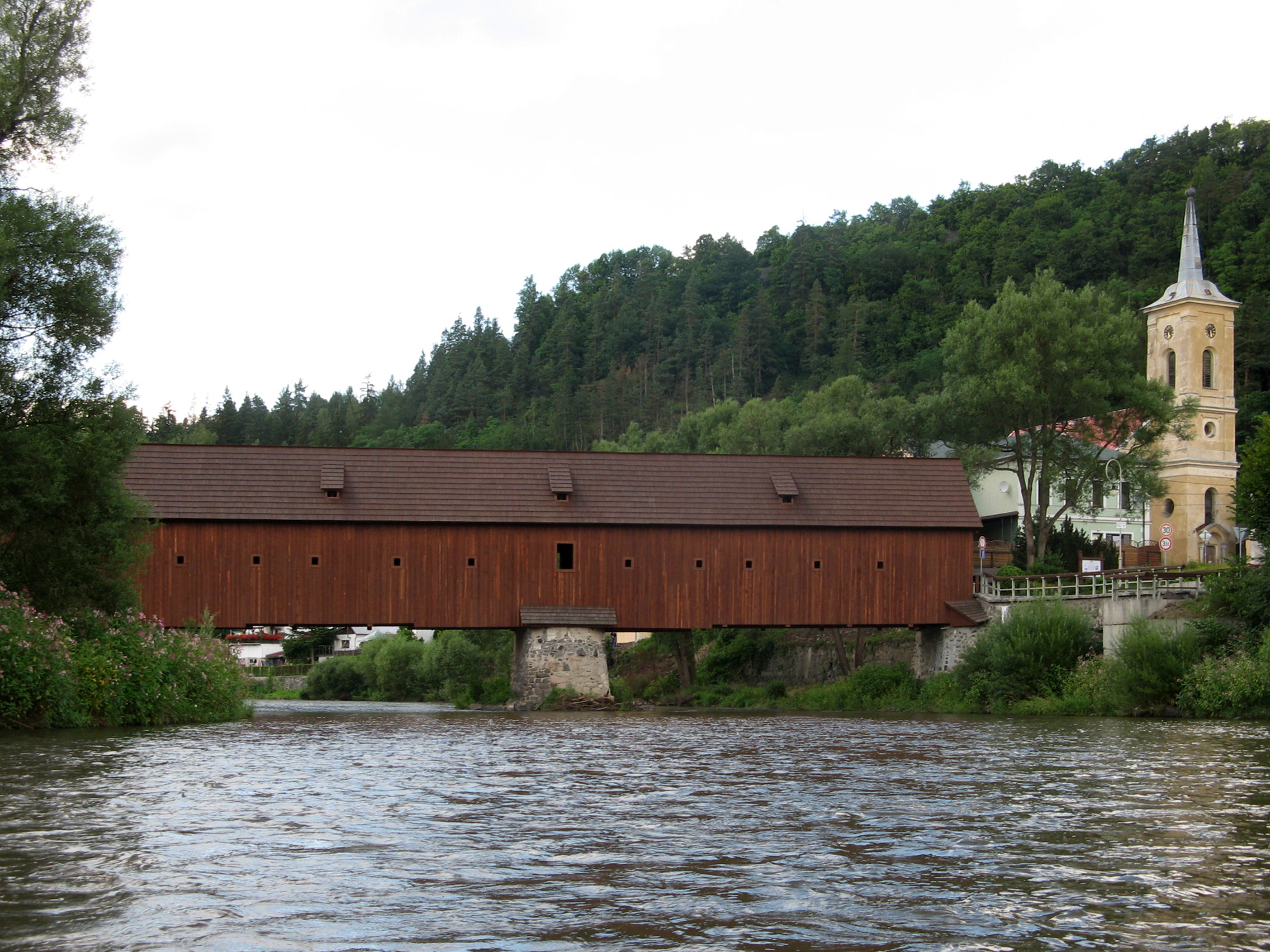 Covered road bridge over the Ohře river in the village of Radošov, part of Kyselka, Karlovy Vary District, Czech Republic